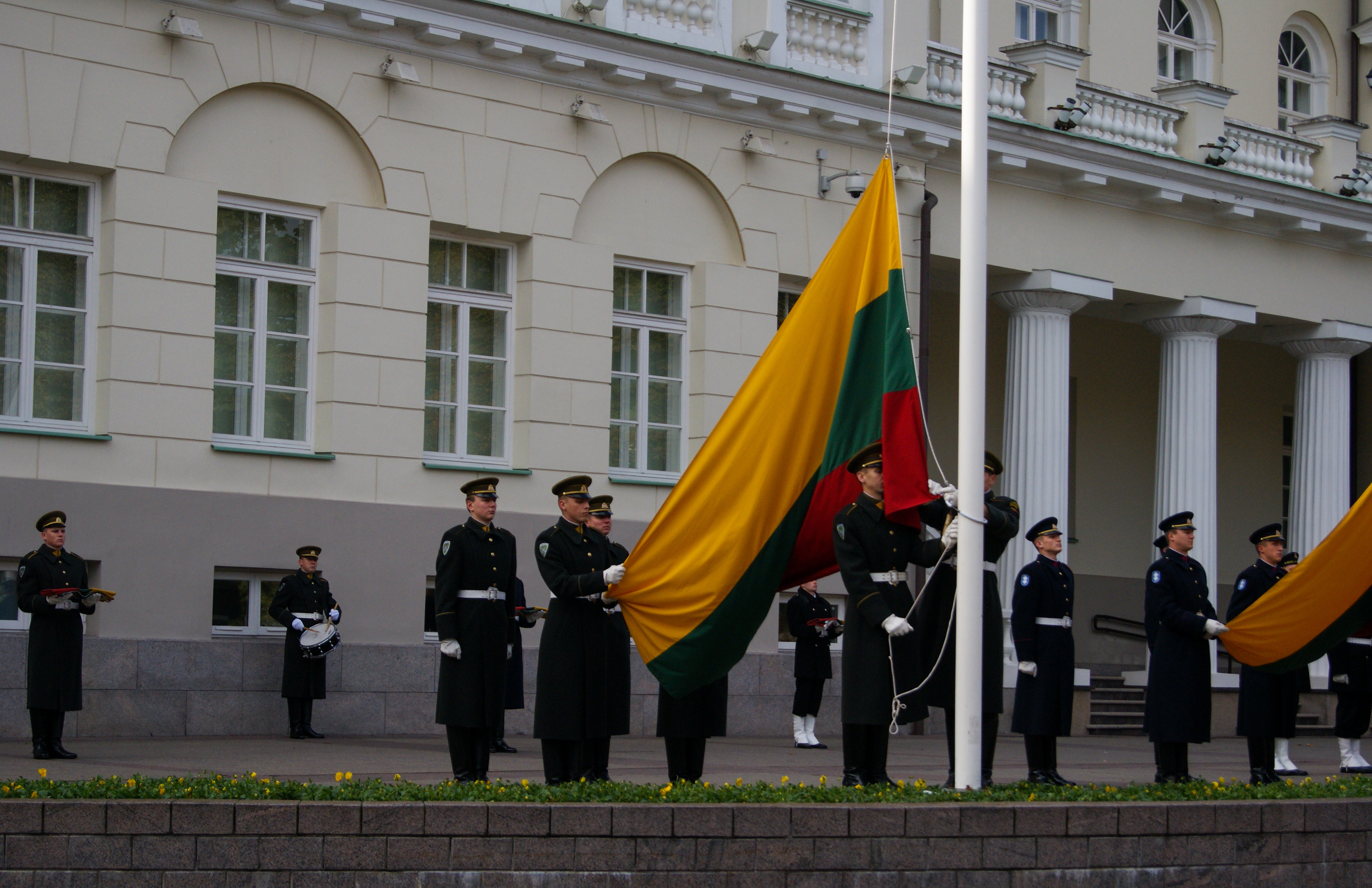 Lithuanian flag rising at the President Palace